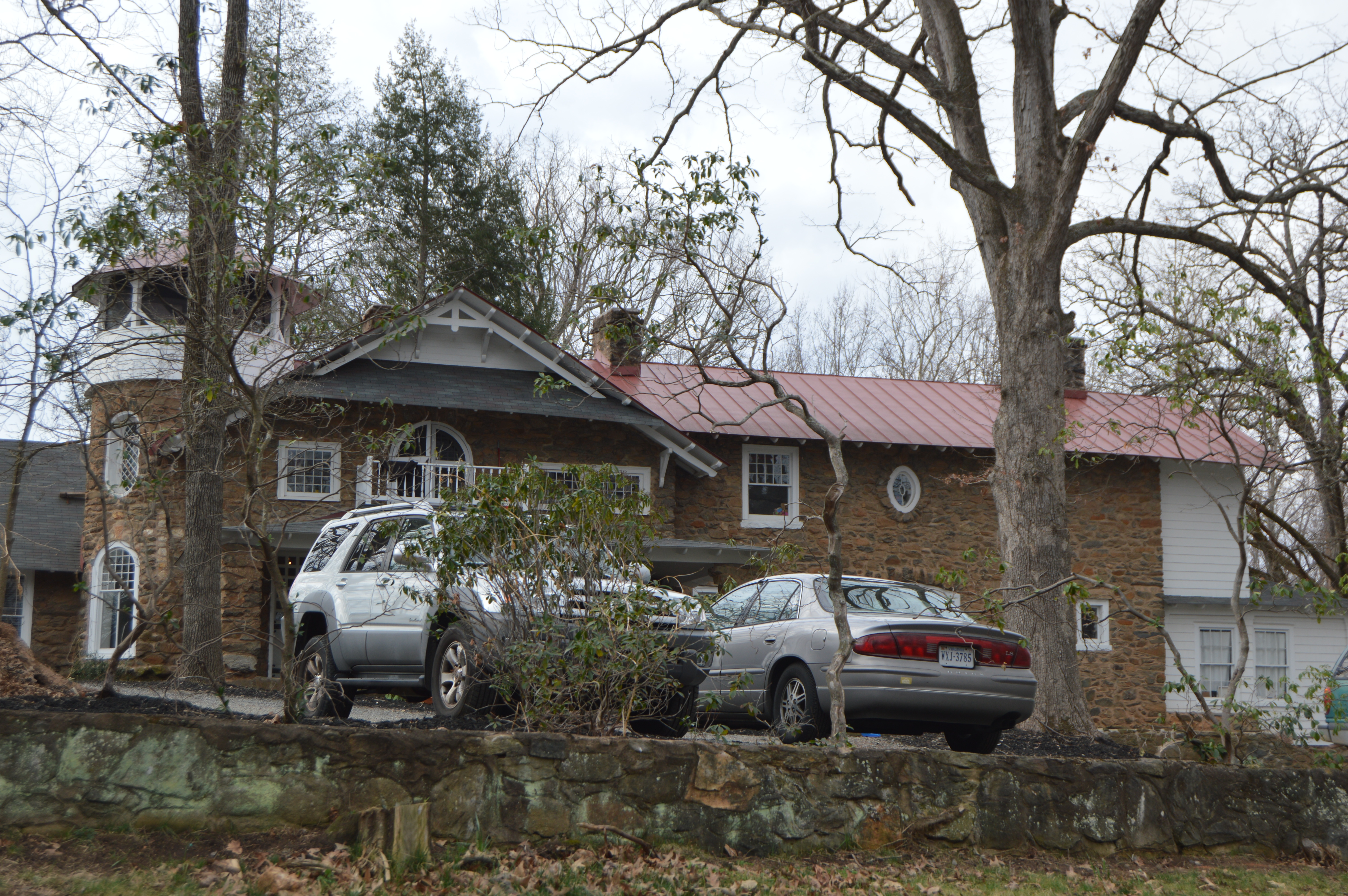 Front of White Cross-Huntley Hall, located at 152 Stribling Avenue in Charlottesville, Virginia, United States. Built in 1891, it is listed on the National Register of Historic Places.